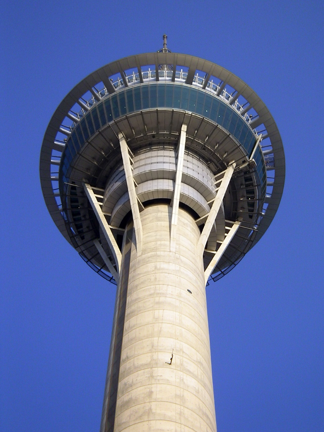 The tallest building of Macau; Macau Tower